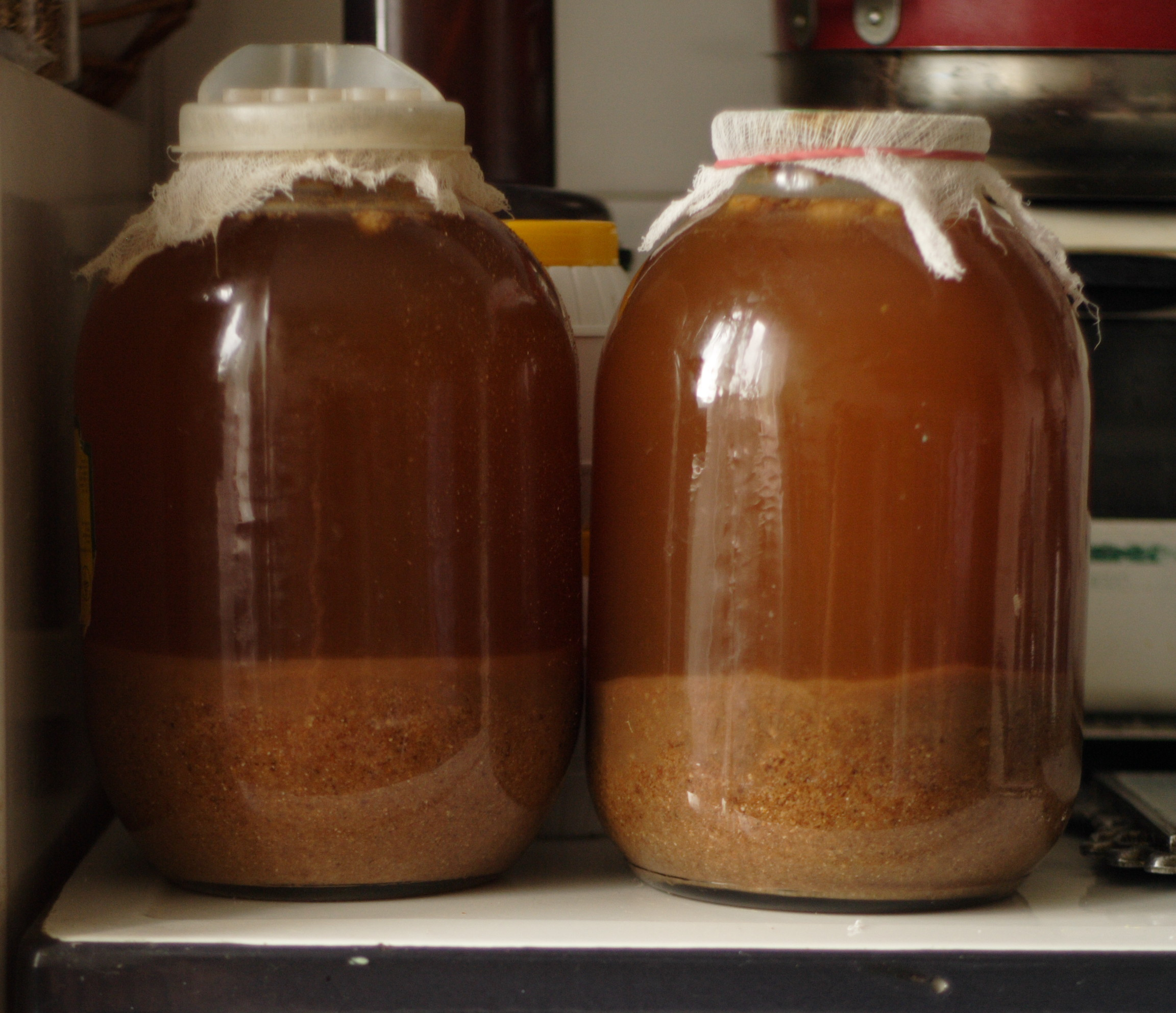 Kvas on the fridge.